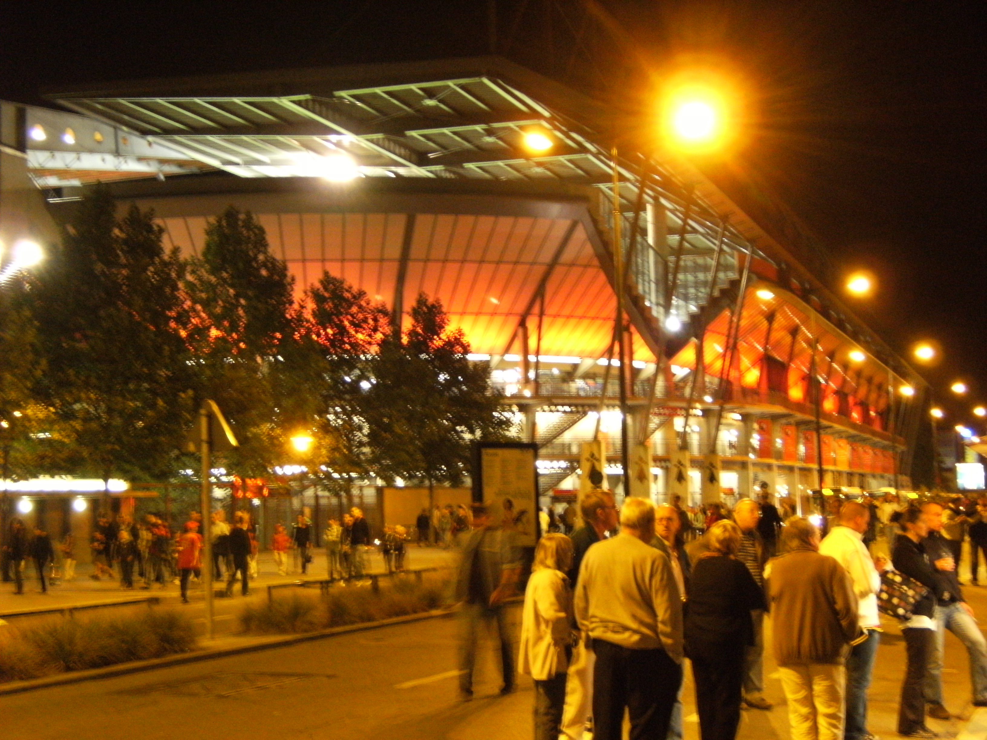 Road to Lorient, Rennes, on a game night